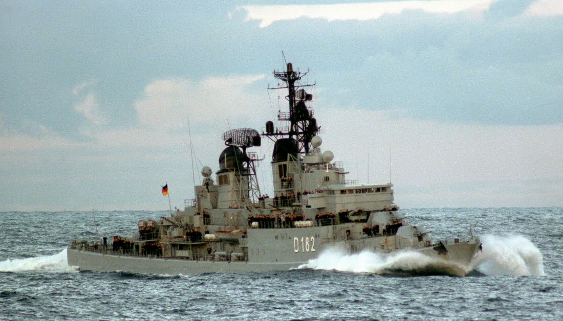 The German destroyer Schleswig-Holstein (D182) underway in a heavy sea during the NATO exercise "Northern Wedding 86" on 1 September 1986.